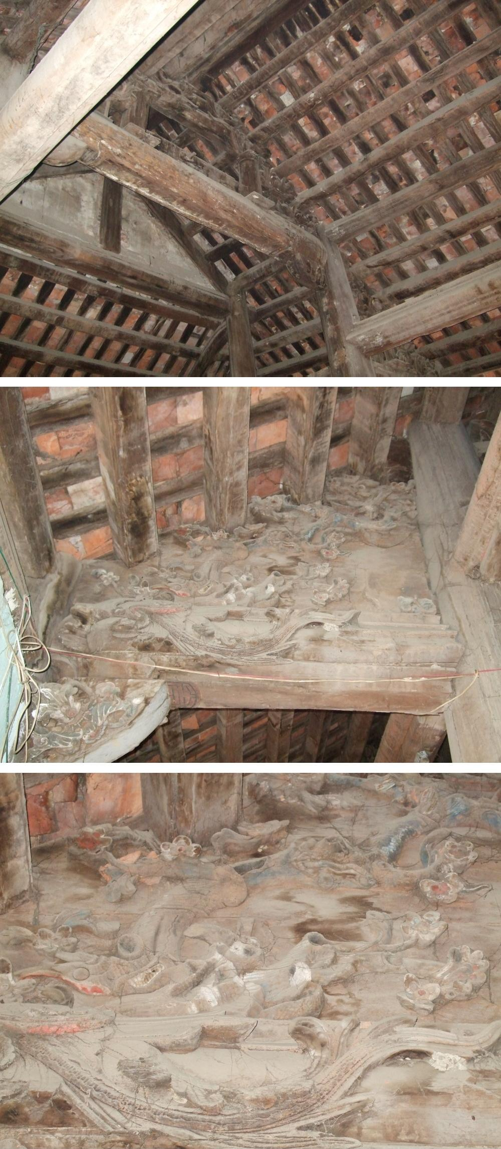 Close-ups of a Vietnamese wooden ceiling.